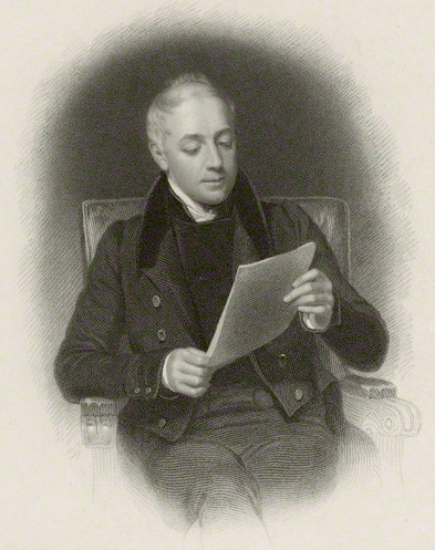 John Murray (1778–1843) by Edward Francis Finden, published by Charles Tilt, after Henry William Pickersgill, stipple engraving, published 1837, 8 3/4 in. x 5 7/8 in. (222 mm x 149 mm) paper size. National Portrait Gallery, London.